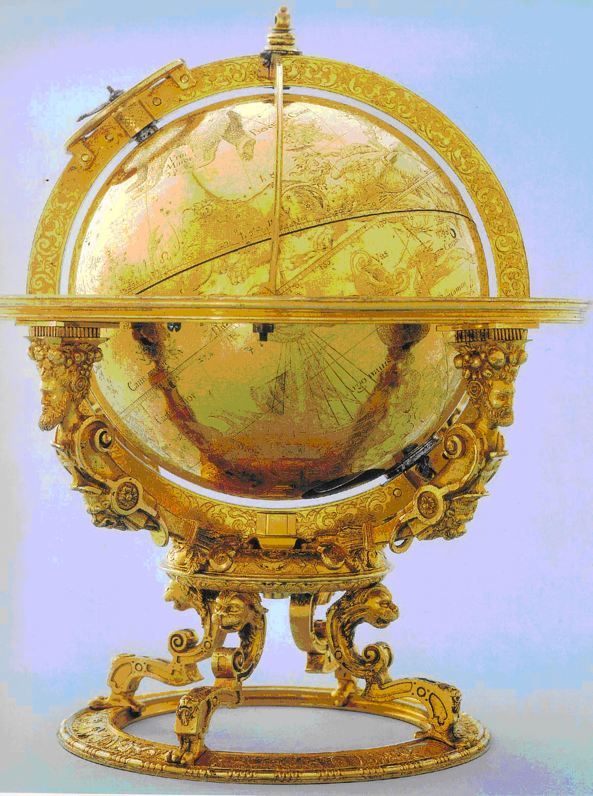 The mechanical celestial globe made 1594 in Kassel by Joost Bürgi, clockmaker from Switzerland. Now at Schweizerisches Landesmuseum in Zurich.